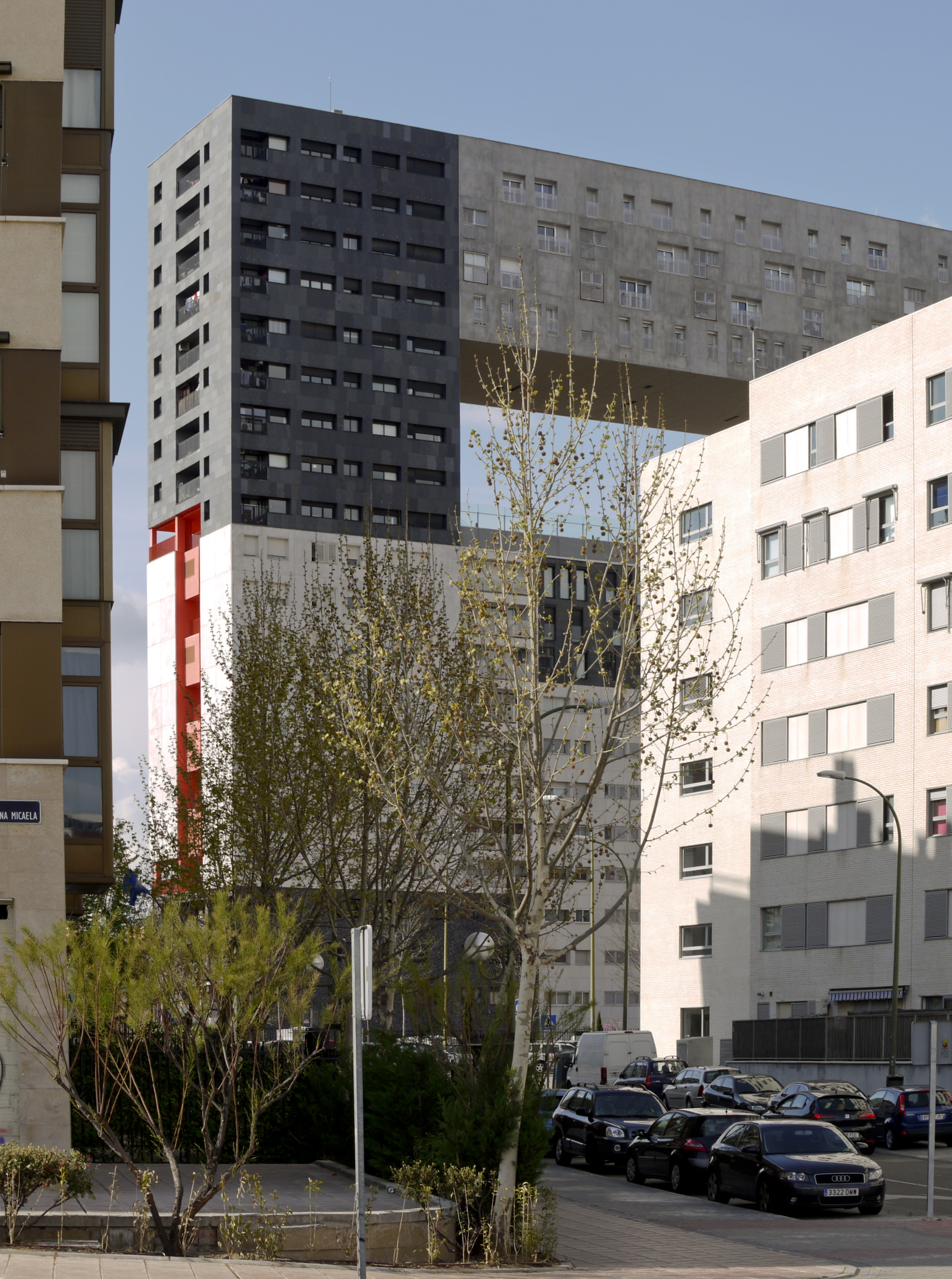 Edificio Mirador, Hortaleza, Madrid, Spain.